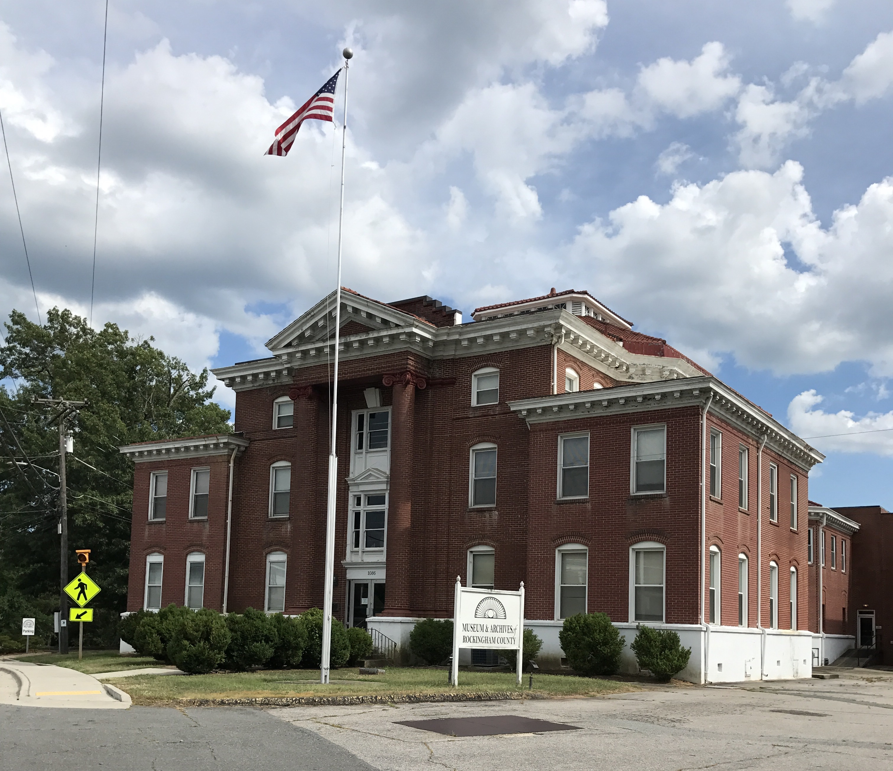 Rockingham County Courthouse building in Wentworth, housing Rockingham County museum and archives